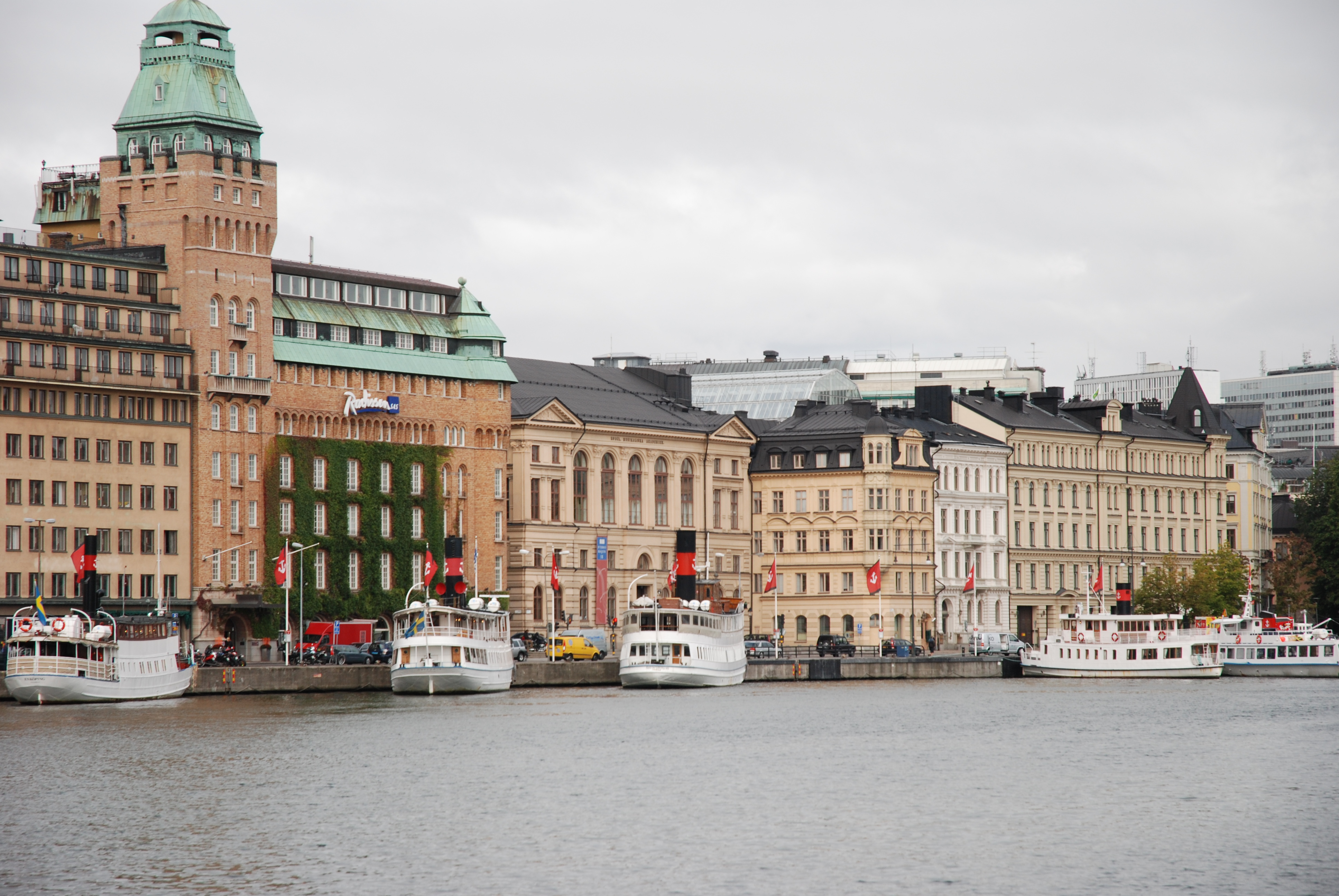 Five M/S:s of Strömma kanalbolaget in Nybroviken, Stockholm (M/S Enköping, M/S Östanå I, M/S Gustavsberg VII, M/S Gustaf III and M/S Stömma kanal), at 9 o´clock an Indian summer morning. In the background: Strand Hotel (the building with the tower) and at the right of the hotel the Royal Academy of Music.